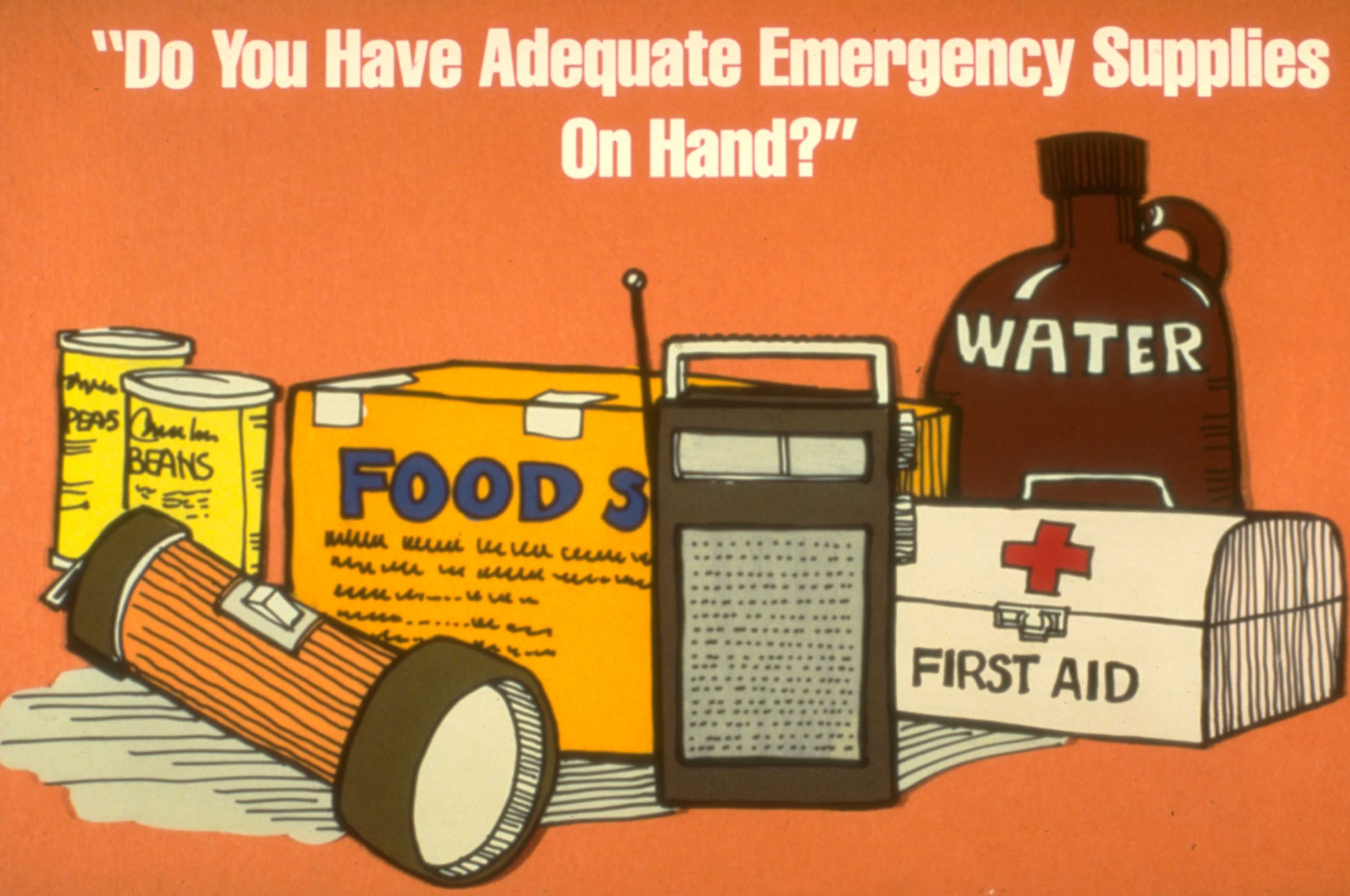 Disasters are devastating to the natural and man-made environment. FEMA provides federal aid and assistance to those who have been affected by all types of disaster. FEMA News Photo